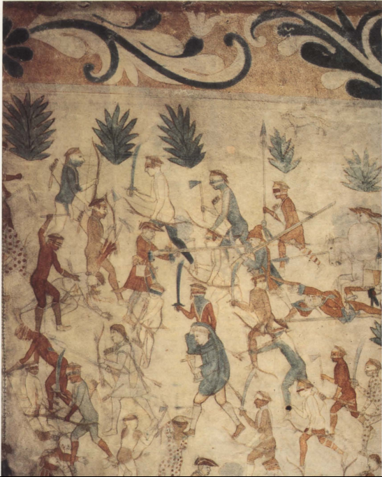 Hide painting sent to Switzerland from Sonora, Mexico in 1758 by Philipp Segesser (1 September 1689 - 28 September 1762) depicting European and Plains Indian warriors. Assumed to represent the 1720 defeat of the Villasur expedition.